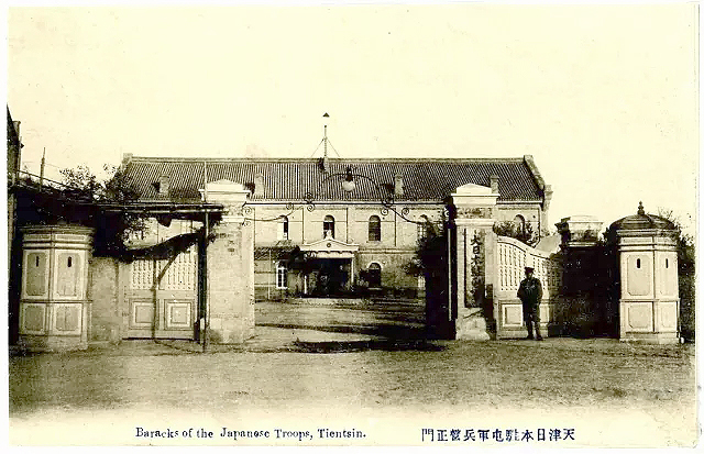 Barracks of the Imperial Japanese China Garrison Army in Tientsin (now Tianjin), approx 1905